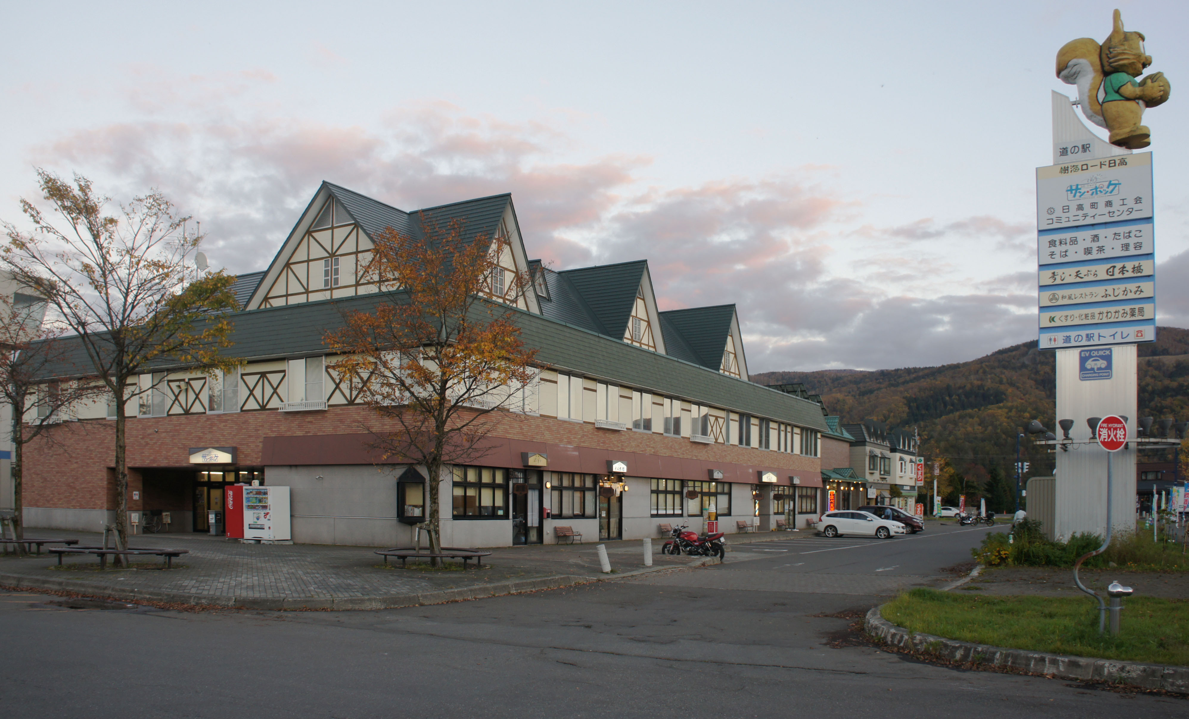 A view of Michinoeki Jukairoad Hidaka in Hokkaido Hidaka Town